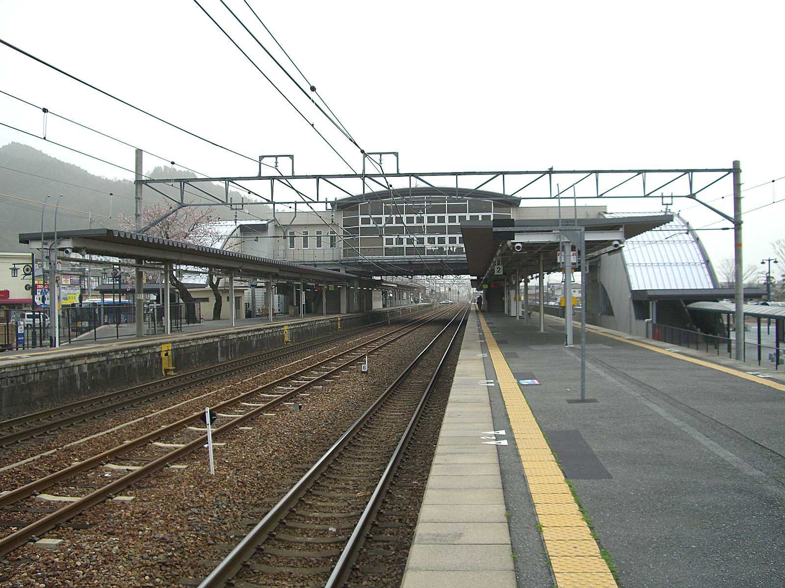 West Japan Railway Tōkaidō Main Line（Biwako Line） Notogawa Station Platform 西日本旅客鉄道 東海道本線（琵琶湖線） 能登川駅 駅ホーム